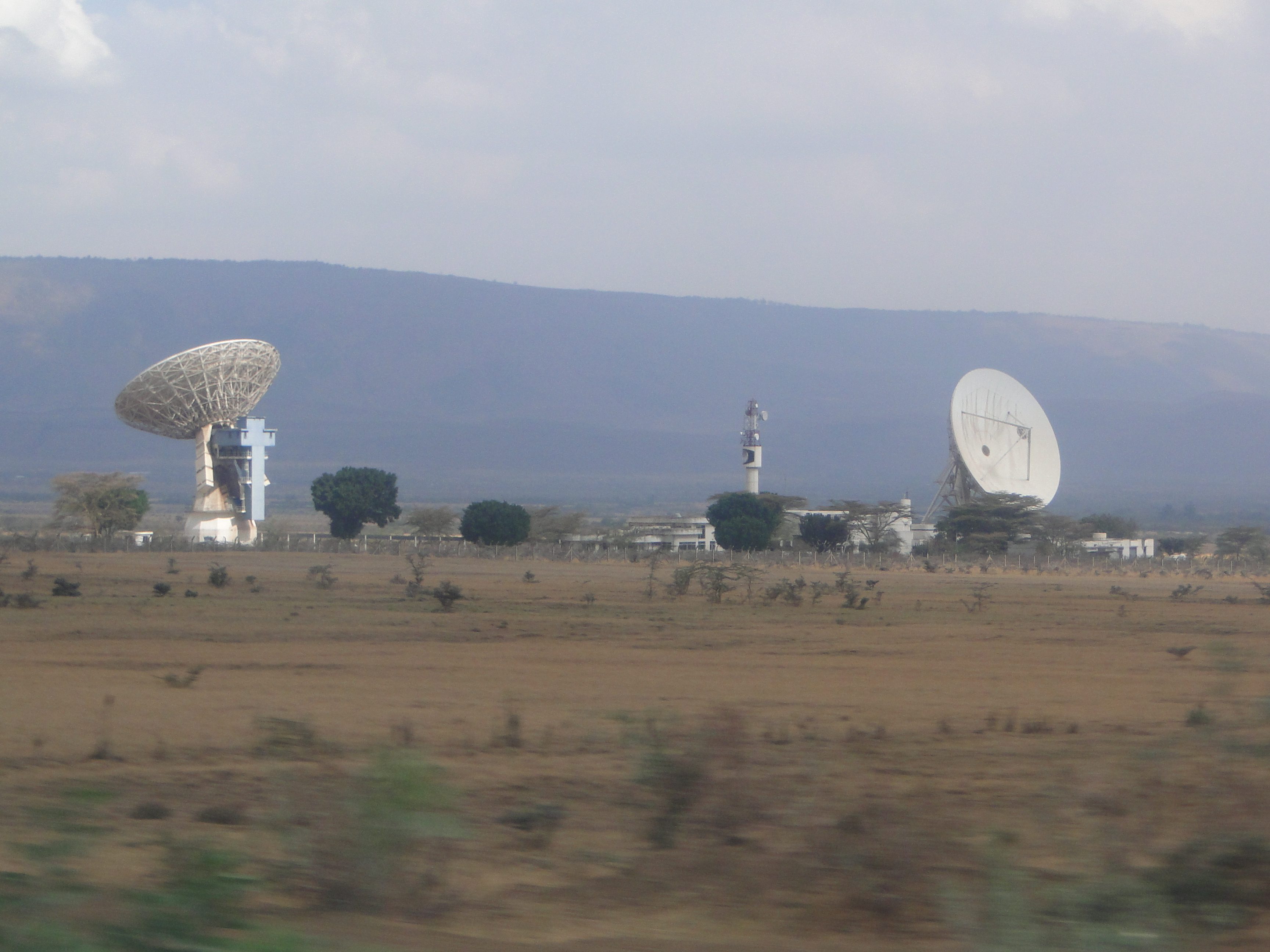 Longonot Earth Satellite Station